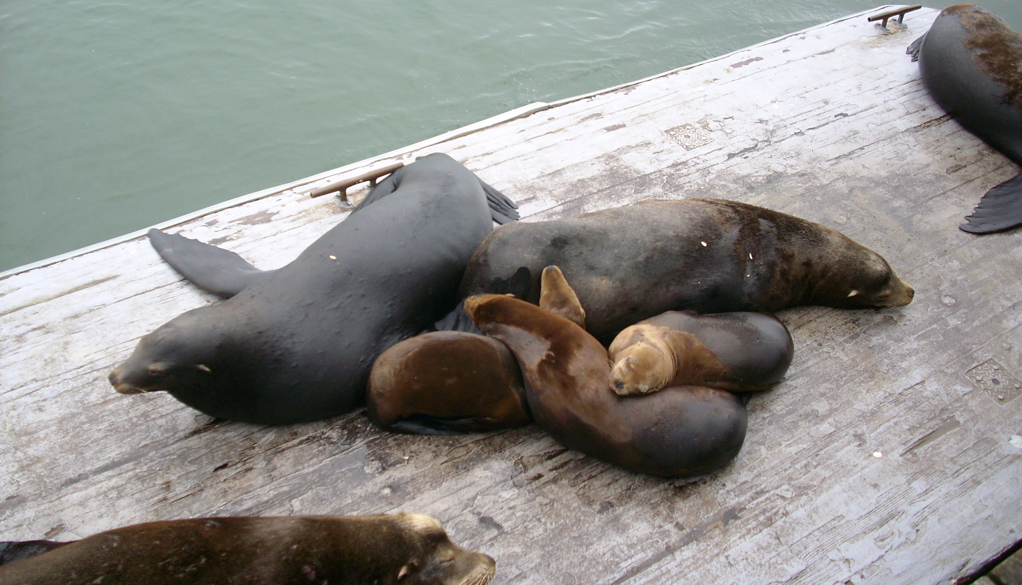 A family (I suppose) of Sea lions in Santa Cruz.